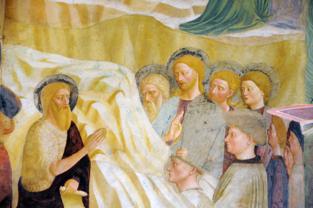 Fresco by Masolino da Panicale in the Baptistery of Castiglione, John the Baptist meets Jesus, detail